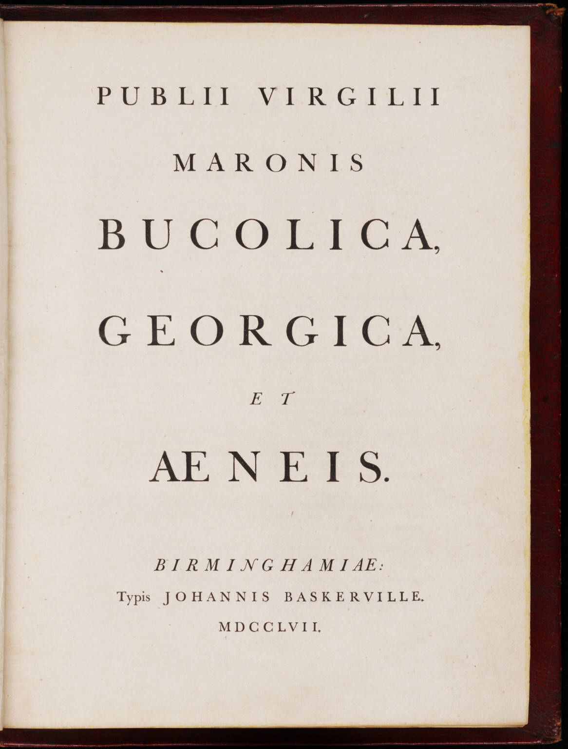 "Publii Virgilii Maronis Bucolica, Georgica, et Æneis," by John Baskerville, Birmingham, England, 1757. Title page. Courtesy of the Beinecke Rare Book and Manuscript Library, General Collection, Yale University, New Haven, Connecticut.